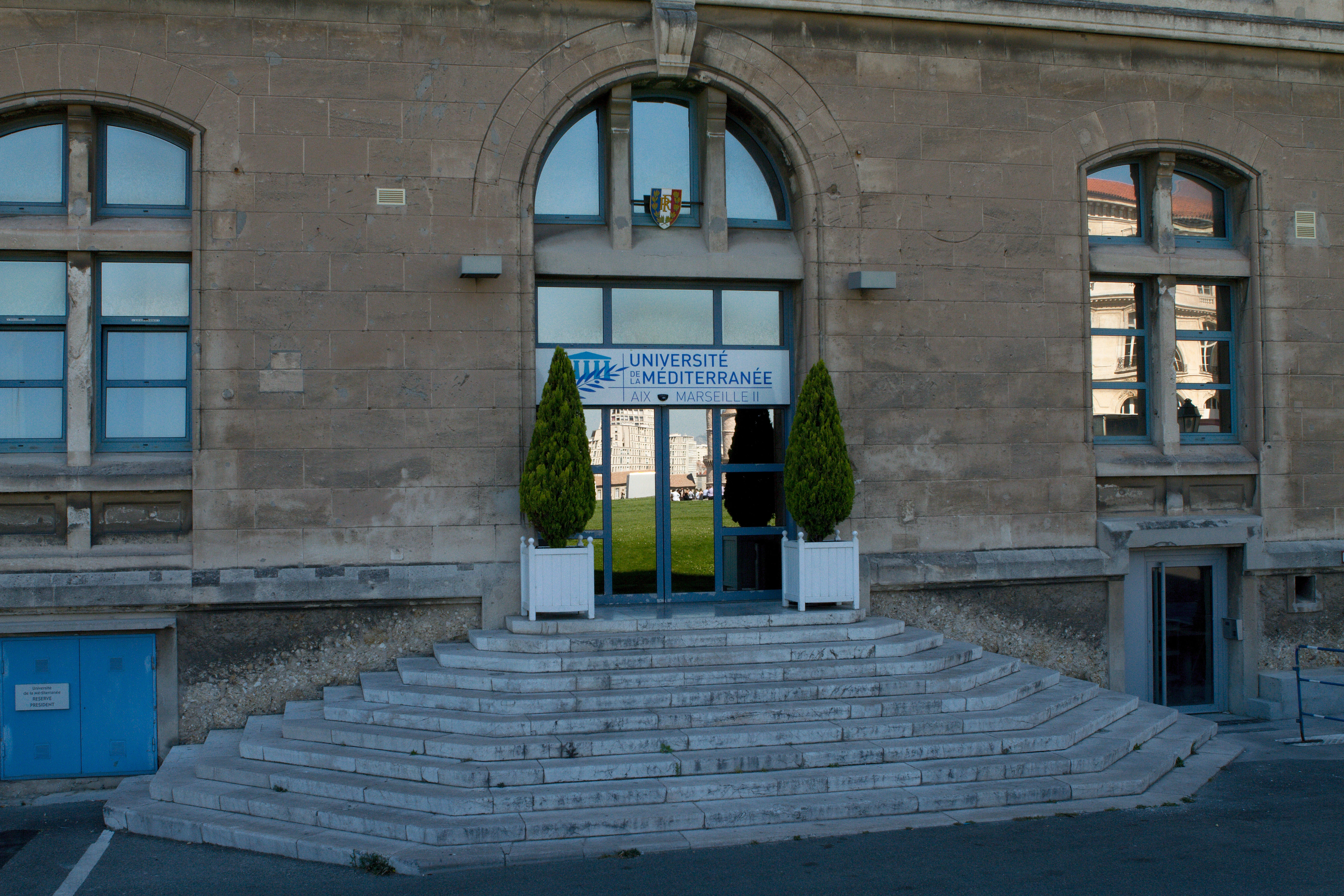 The University of the Mediterranean Aix-Marseille II in Marseille, Bouches-du-Rhône (France).